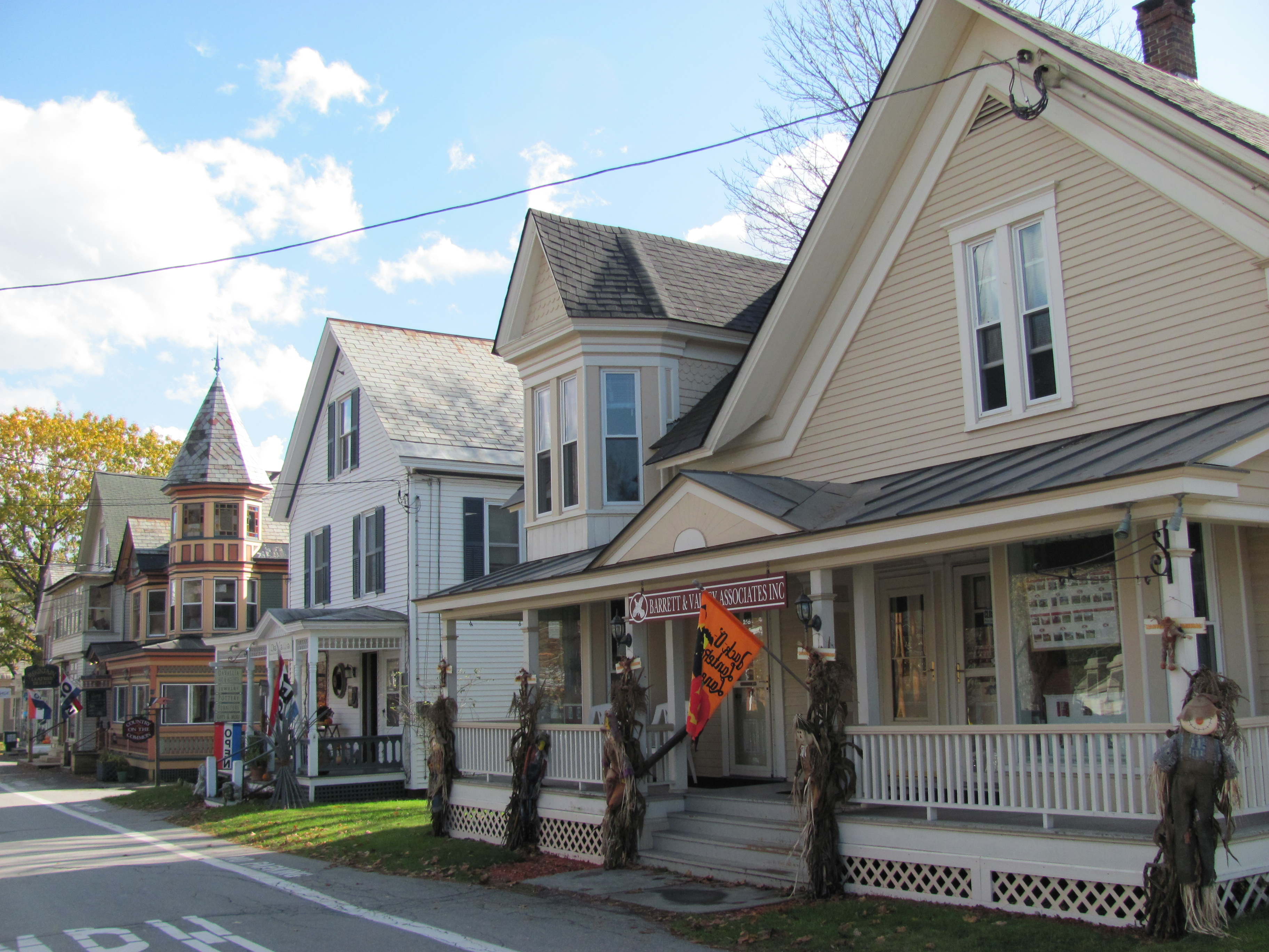 Looking west from Village Green, Chester Village Historic District, Roughly bounded by Lovers Lane Brook, Maple St., the Williams River, Middle Branch, and Lovers Lane Chester, Vermont.